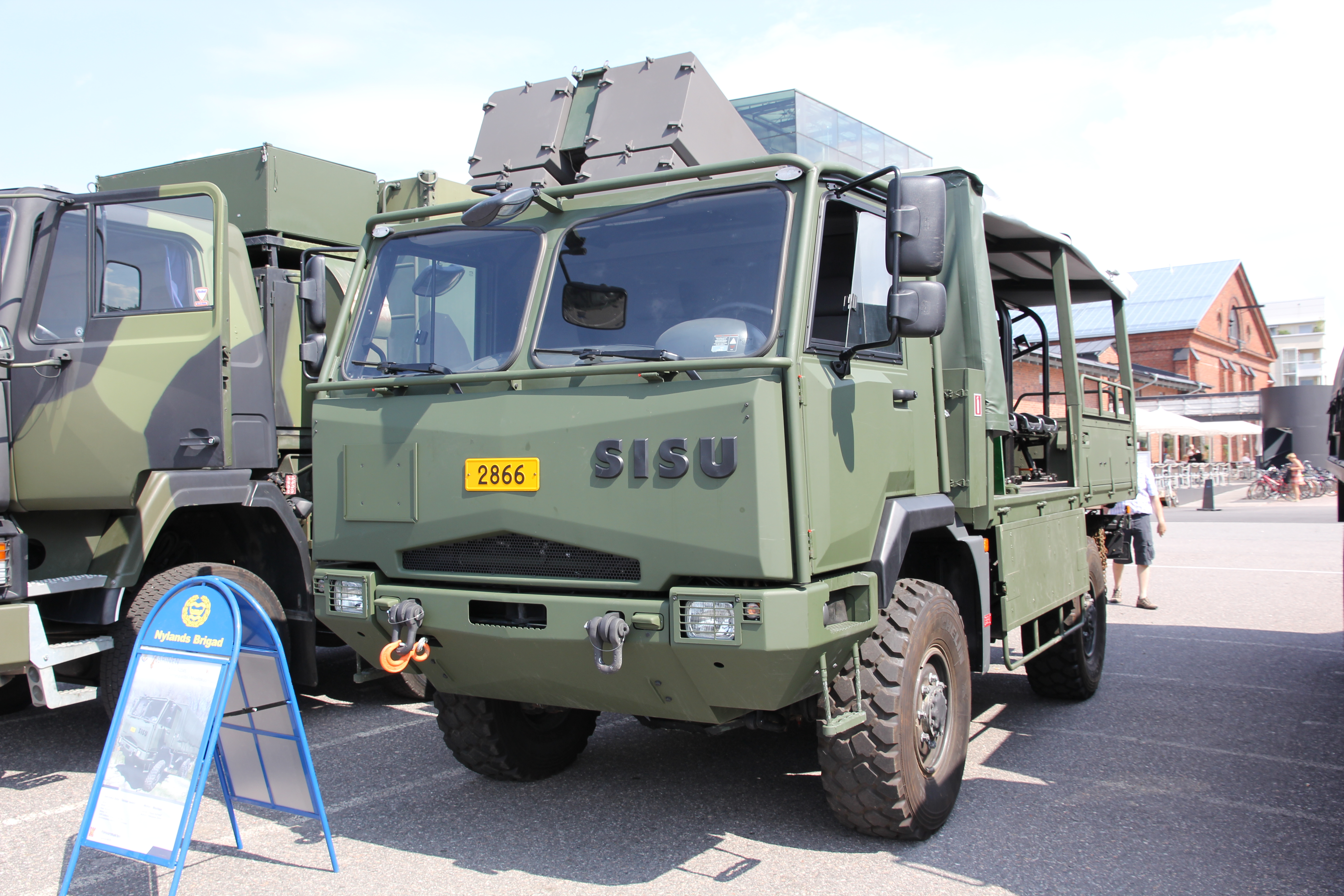 Sisu A2045 military truck in Turku Forum Marinum during Finnish Navy 2011 anniversary. This example has been fitted as a troop carrier with seats.